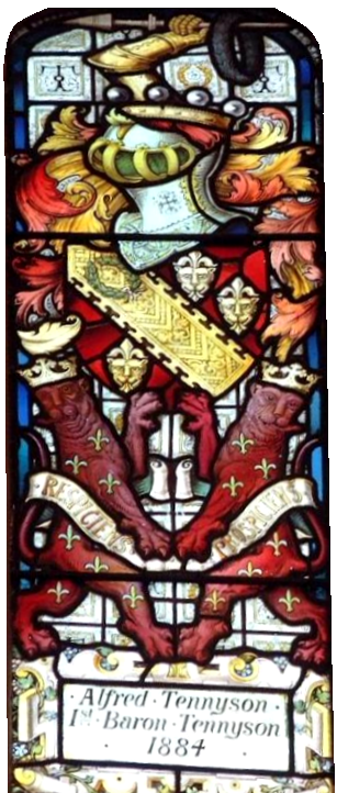 Stained glass window in Hall of Trinity College, Cambridge, England, showing arms of Alfred, Lord Tennyson. Arms: Gules, a bend nebuly or thereon a chaplet vert between three leopard's faces jessant-de-lys of the second; Crest: A dexter arm in armour the hand in a gauntlet or grasping a broken tilting spear enfiled with a garland of laurel; Supporters: Two leopards rampant guardant gules semee de lys and ducally crowned or; Motto: Respiciens Prospiciens (Debrett's Peerage, 1968, p.1091) ("Looking backwards (is) looking forwards") The chaplet on the bend is a special augmentation to the paternal arms. The arms appear to be a difference of the arms of Thomas Tenison (d.1715), Archbishop of Canterbury, themselves a difference of the 13th century arms of Denys of Waterton, Glamorgan and of Siston and Dyrham in Gloucestershire (being themselves a difference of the arms of Cantilupe). The surname Tennyson signifies "son of Denys". No known connection exists between the two families. The Denys arms were usually shown "debruised" by a bend engrailed, i.e. the bend overlay the leopard's faces. However, later versions (for example as seen in Pucklechurch Church, Gloucestershire, and on the Lygon monument in Fairford Church, Gloucestershire) "tidied them up" (as is shown in the Tennyson arms) to show the bend passing neatly between the leopard's faces. The original intention of the bend was however to difference the arms of Cantilupe, somewhat brutally, by simply imposing it on the 2, 1, arrangement. It is assumed that the first Denys to adopt these arms was a feudal tenant or follower of one of the Cantilupe family, which originated the jessant-de-lys design. Other feudal tenants of the Cantilupes are proven to have done this in a similar fashion, most notably the Hubard family of Ipsley, Warwickshire, and the Woodforde family of Brentingby, Leicestershire